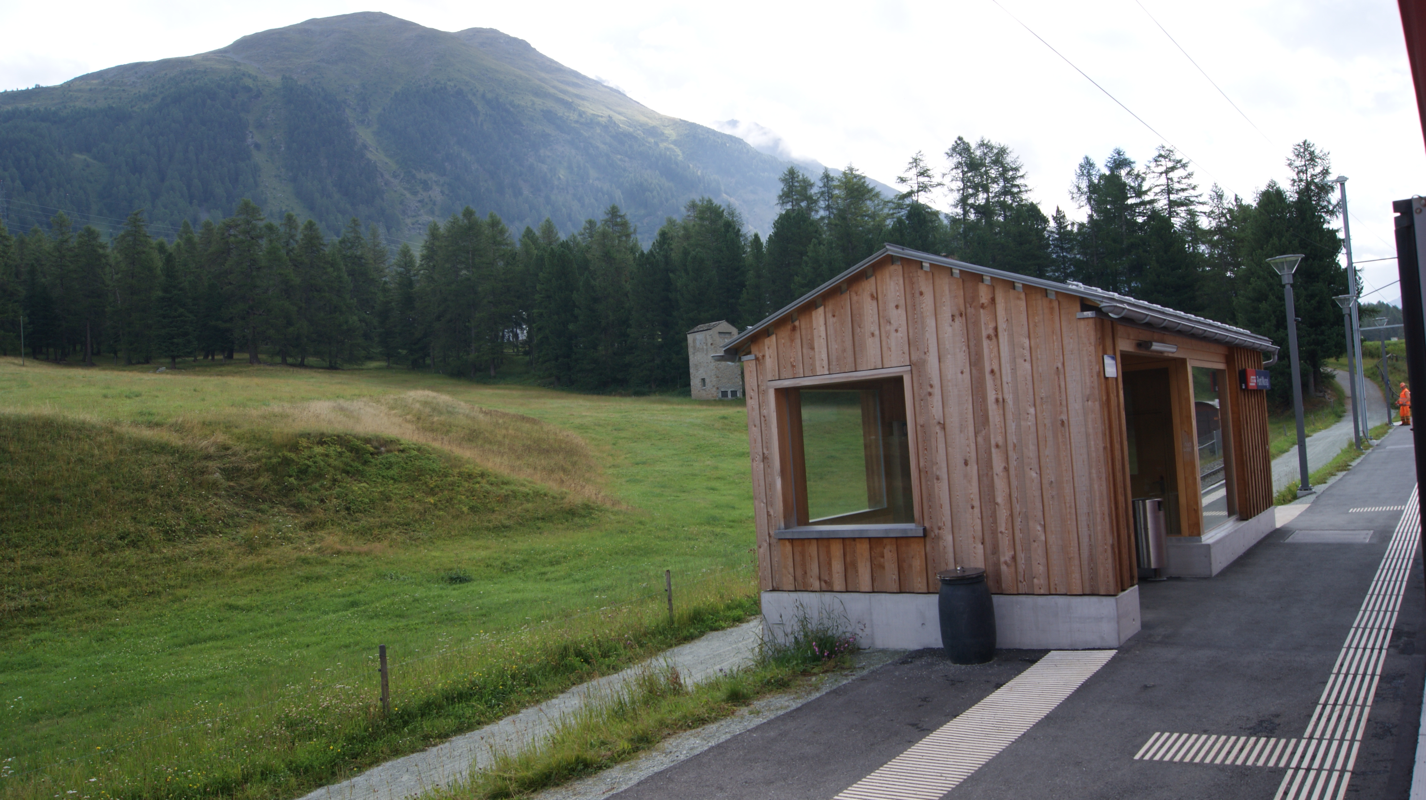 Railway station Punt Muragl (Samedan-Pontresina railway line, 1728.2 m above sea level) in Grisons, Switzerland.